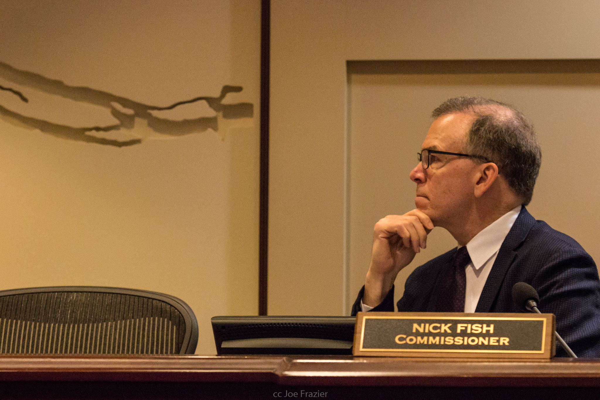 pdxcitycouncil02217-4947